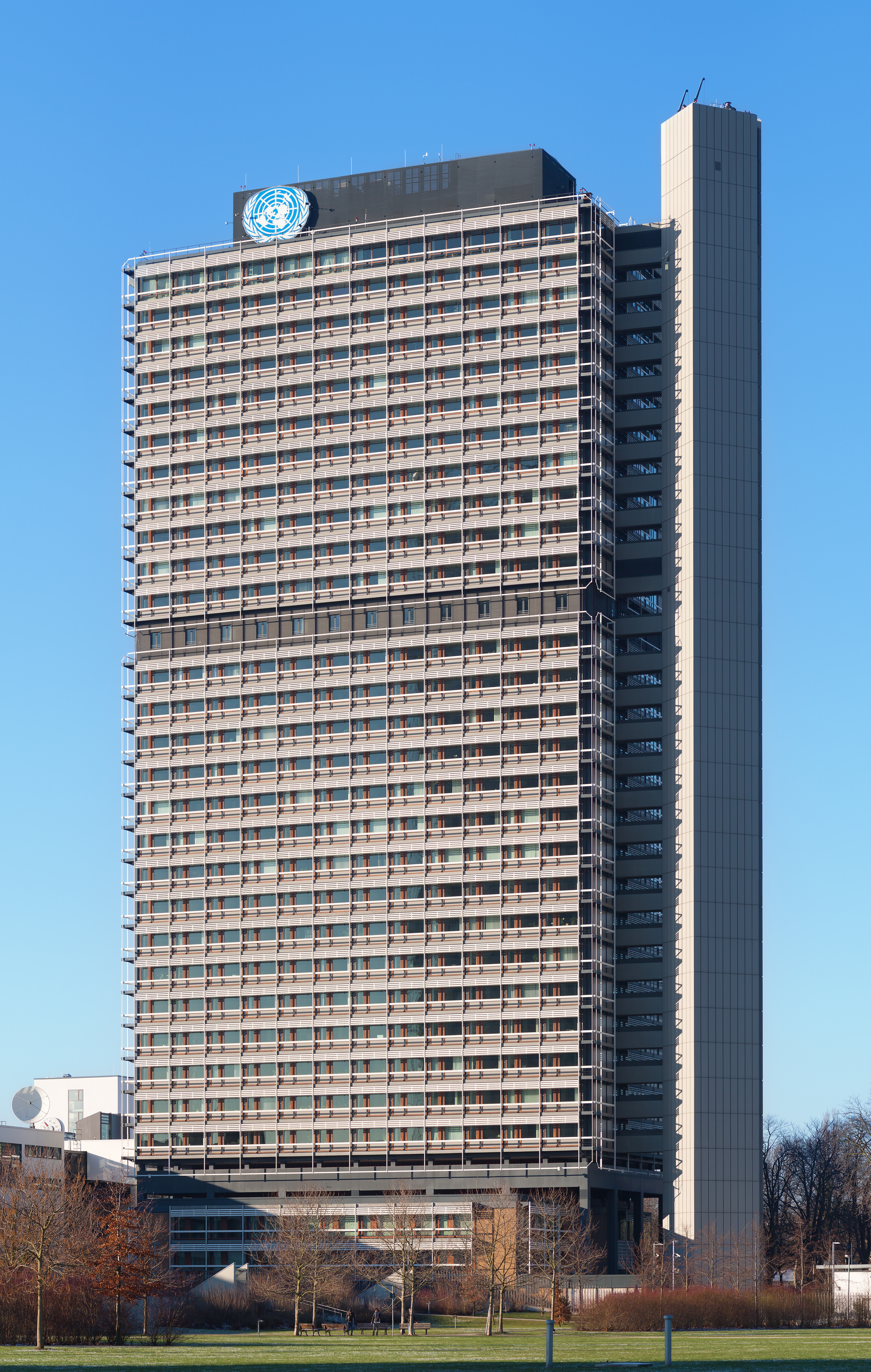 Skyscraper Langer Eugen in Bonn, hired from the United Nations.